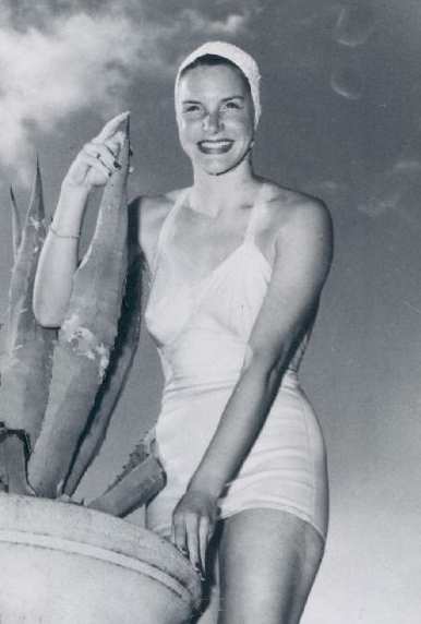 1948 National Womens AAU Swimming Meet Ann Curtis Score Most Points Press Photo